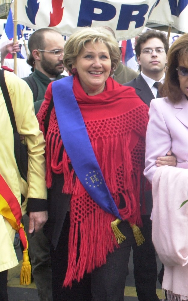 Marie-France Stirbois with her sash of member of European Parliament, at the Front national's march in honor of Joan of Arc, May 1st 2004 in Paris, France.